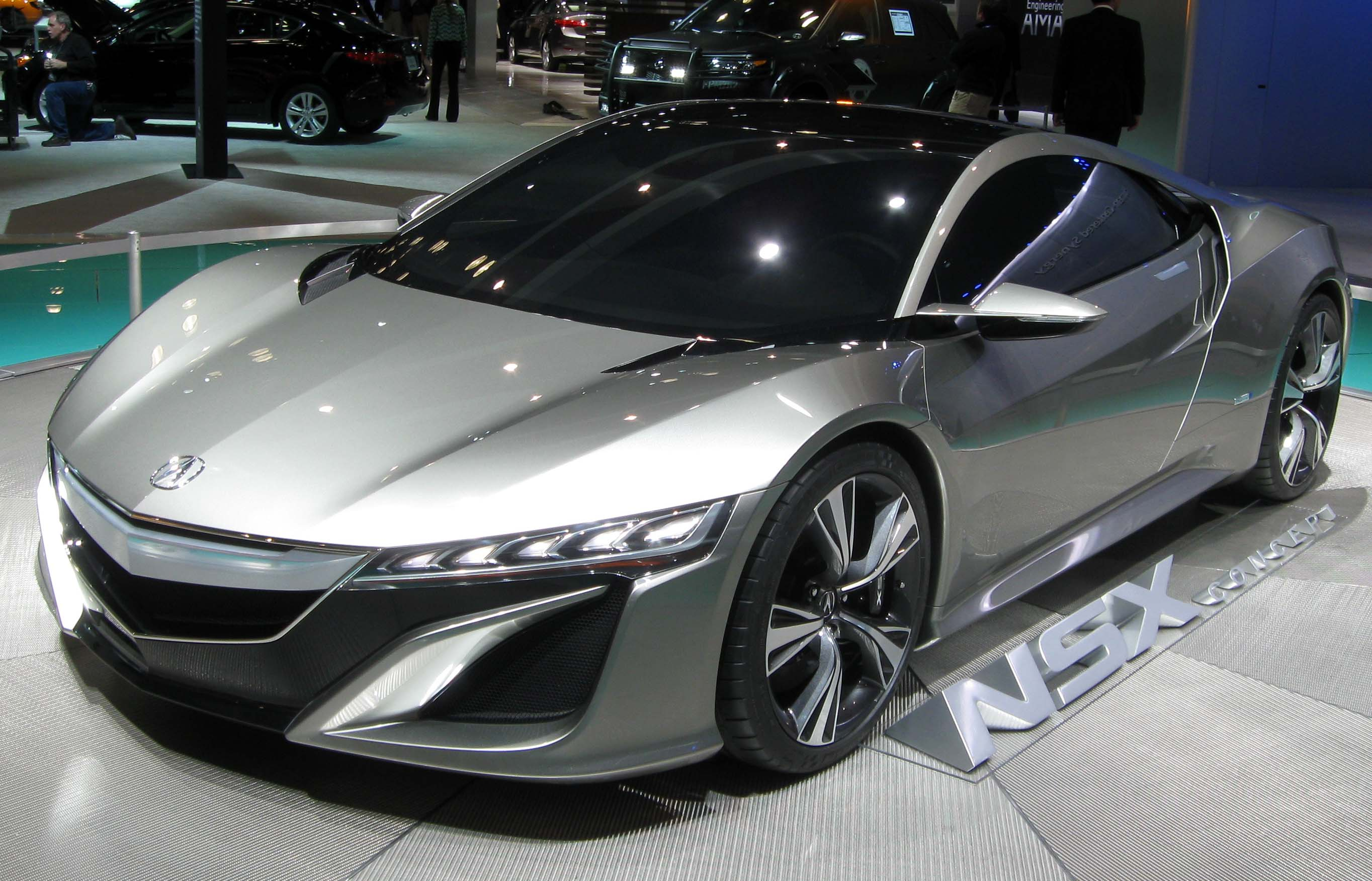 Acura NSX concept photographed at the 2012 New York International Auto Show.